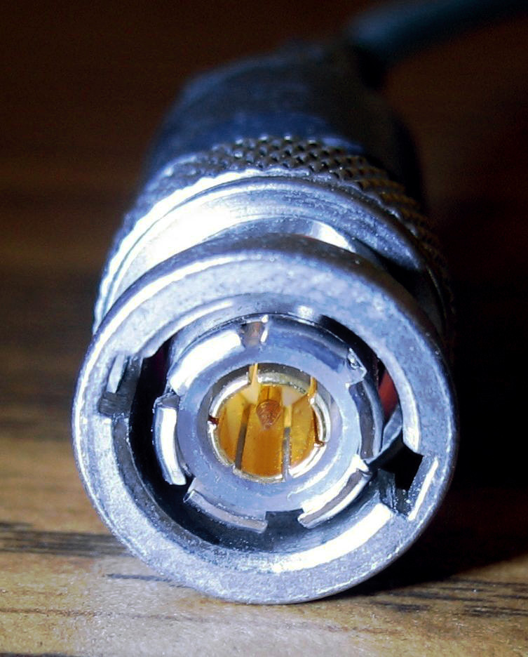 BNC triax